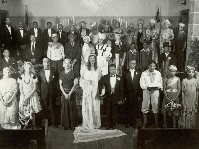 This is a black and white photography from the early 20th century of a womanless wedding taking place in a Methodist Church in Cincinatti, Ohio. It was obtained from the archives and rare books library of the University of Cincinatti